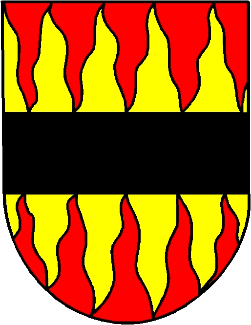 coat of arms village of Les Enfers (Switzerland)